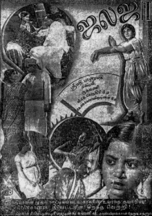 Advertising poster of Tamil film Jalaja (1938)